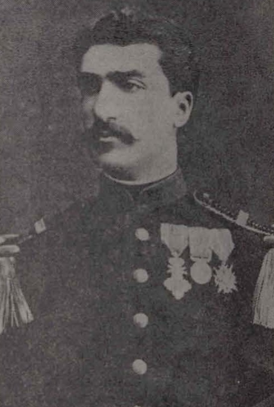 photograph after the participation of brociner in the Rumanian Independence War 1877-1878